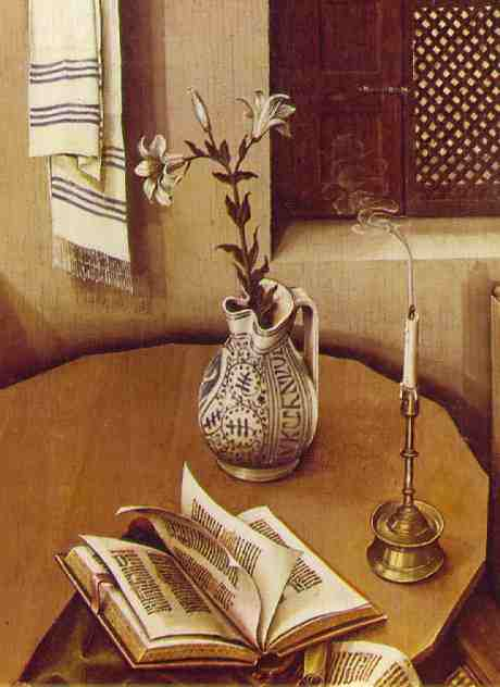 The Mérode Altarpiece (Central panel) Oil on wood, 64,1 x 117,8 cm Metropolitan Museum of Art, New York